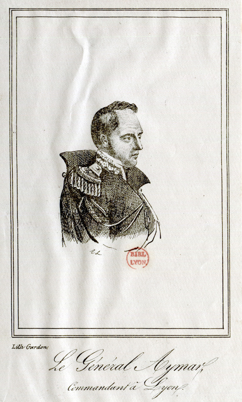 General Antoine Aymard